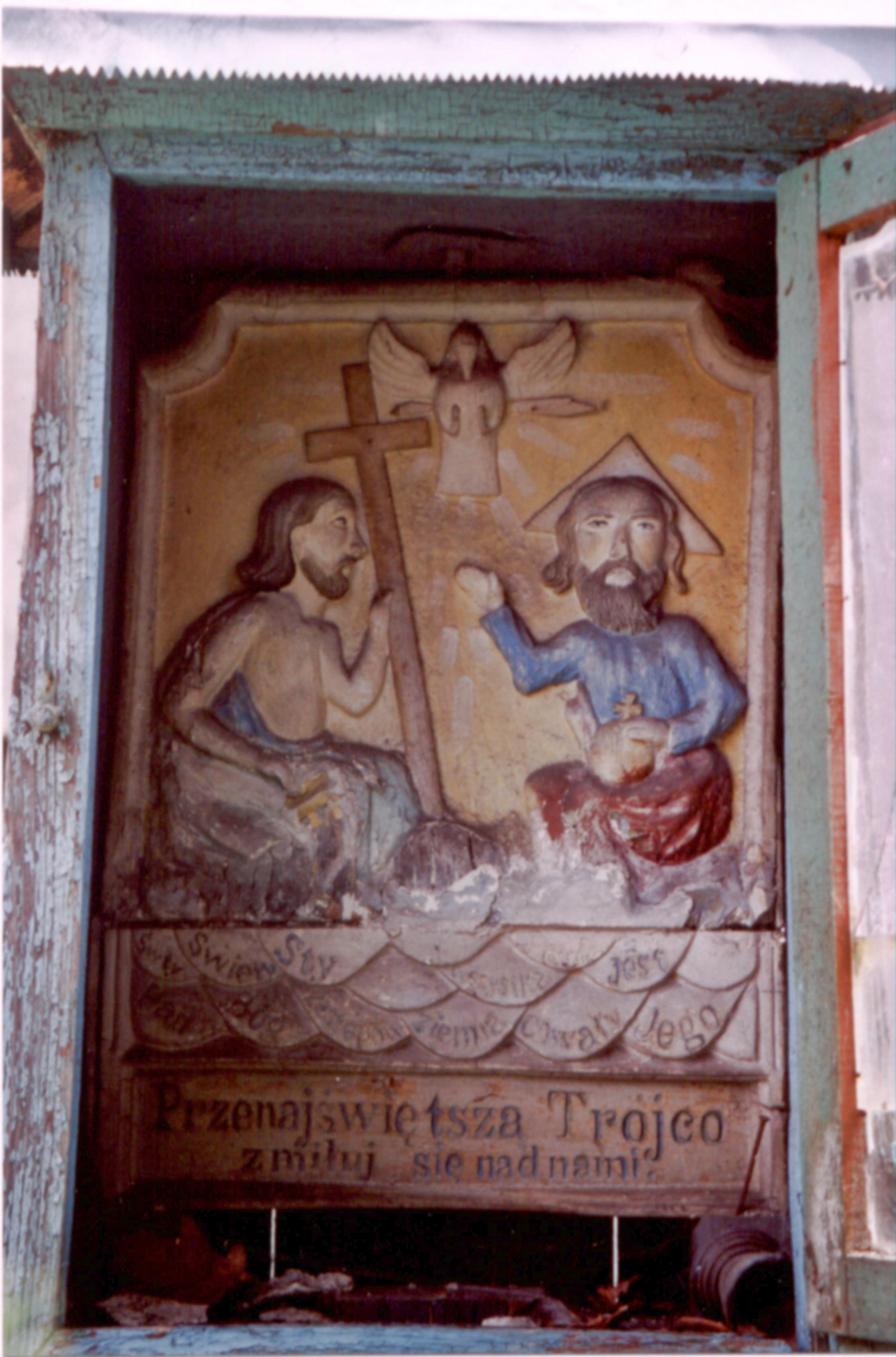 Shrine of Holy Trinity in Boronów Author: Przykuta